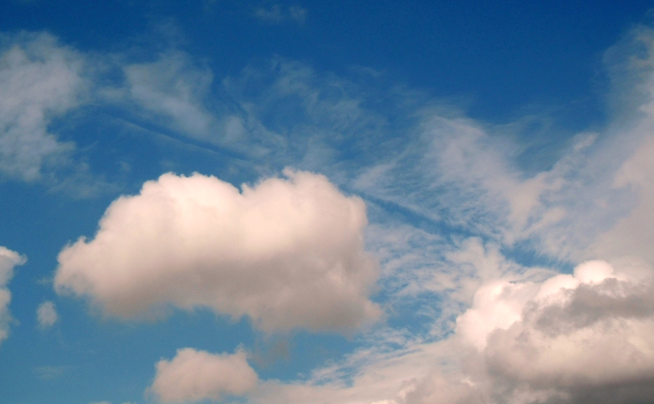 On the beautiful, clear day of November 22, 2012, Earth100 captured this rare shot of a distrail, just 10 second old from being made by the airplane.